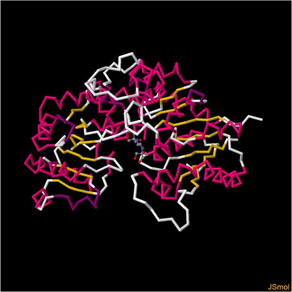 A backbone structure of flavonol 3-O-glucosyltransferase.